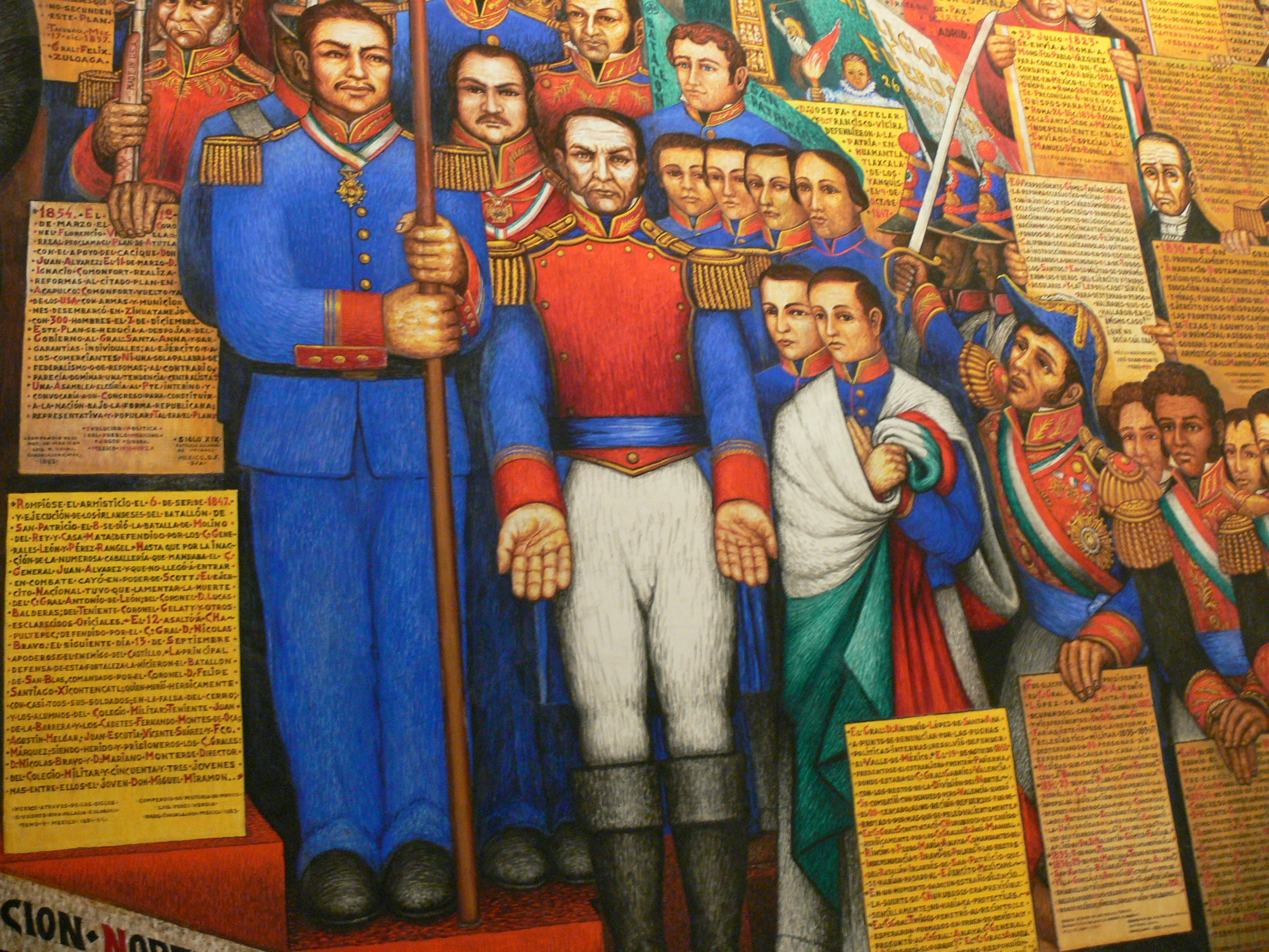 Tlaxcala city. Palacio de Gobierno: Murals - History of Mexico since its independence.